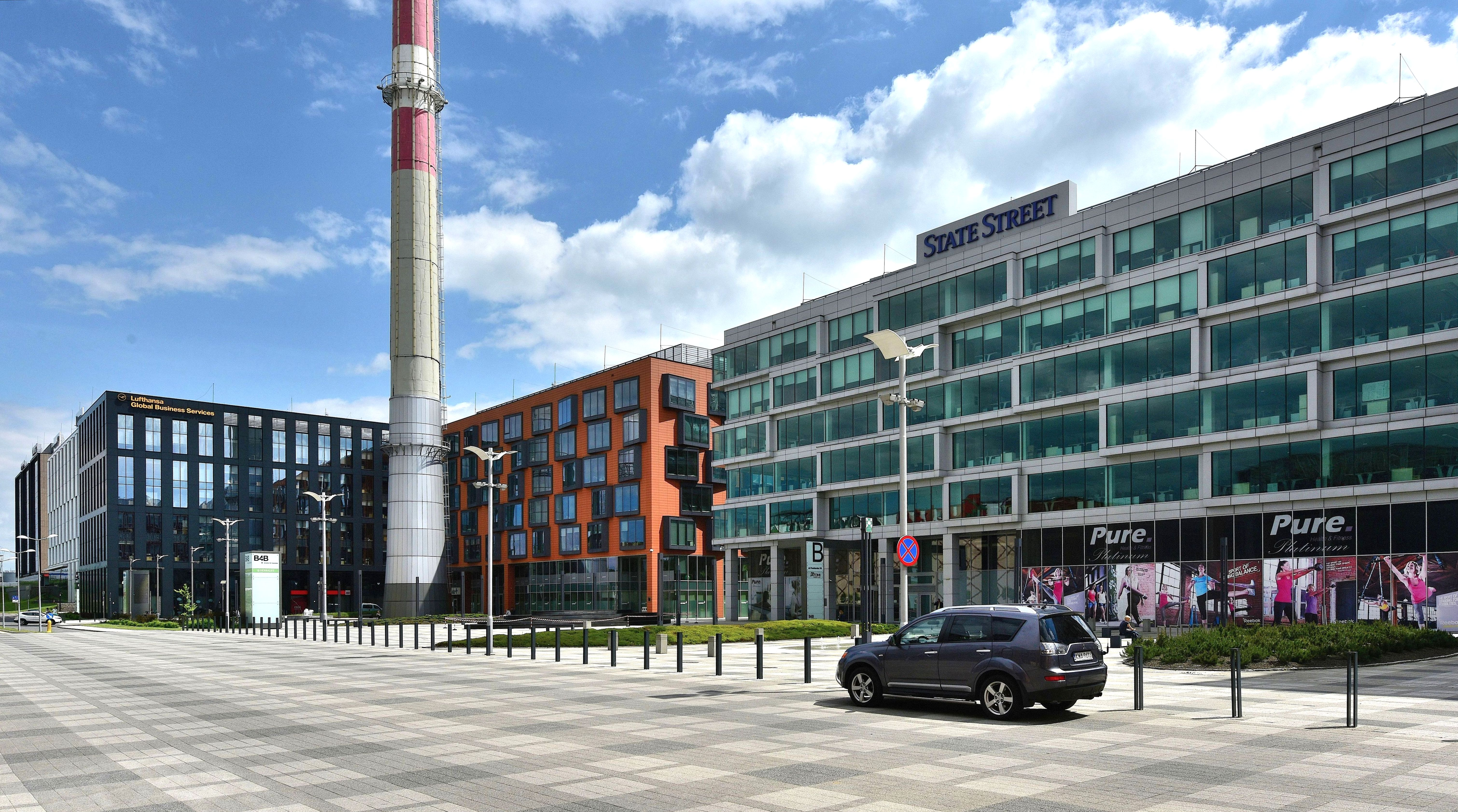 Bonarka for Business office park, pictured seats of Lufthansa GBS and State Street